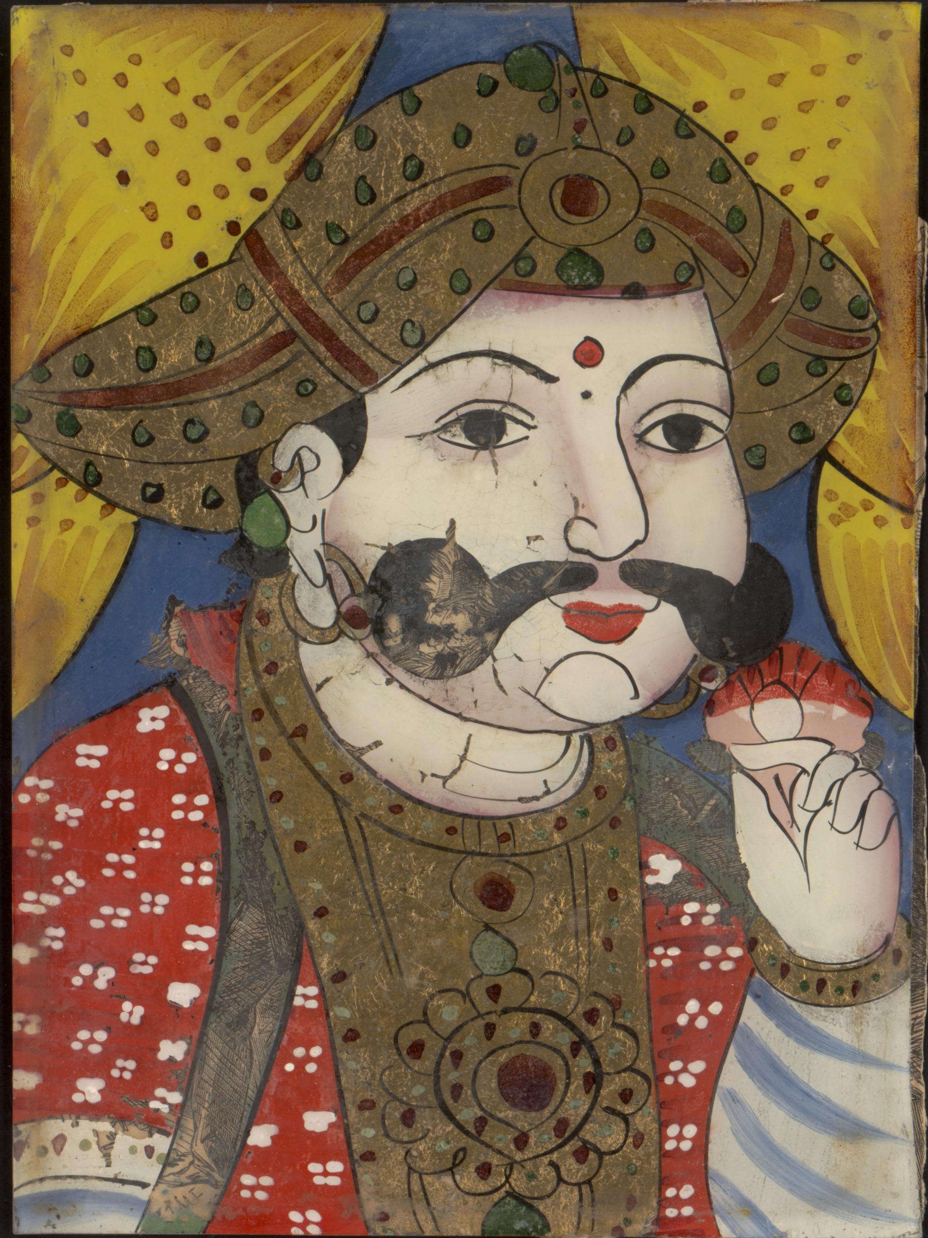 A local artist painted this portrait of Raja Sarabhoji of Tanjore (Thanjavur) on glass around 1860. The raja is holding a flower. This is a common feature of portraits of Indian rulers. It symbolises the sitter's sensitive and cultured nature. Most Company Paintings (pictures made by Indian artists for the British) were on paper or, less common, on ivory and mica (talc). Artists also occasionally used cloth, wood, or even conch shell. Chinese artists appear to have introduced glass-painting into India in the late 18th century. Glass-paintings were fragile and so the British seldom brought them back to England. This is one of only eight in the V&A.